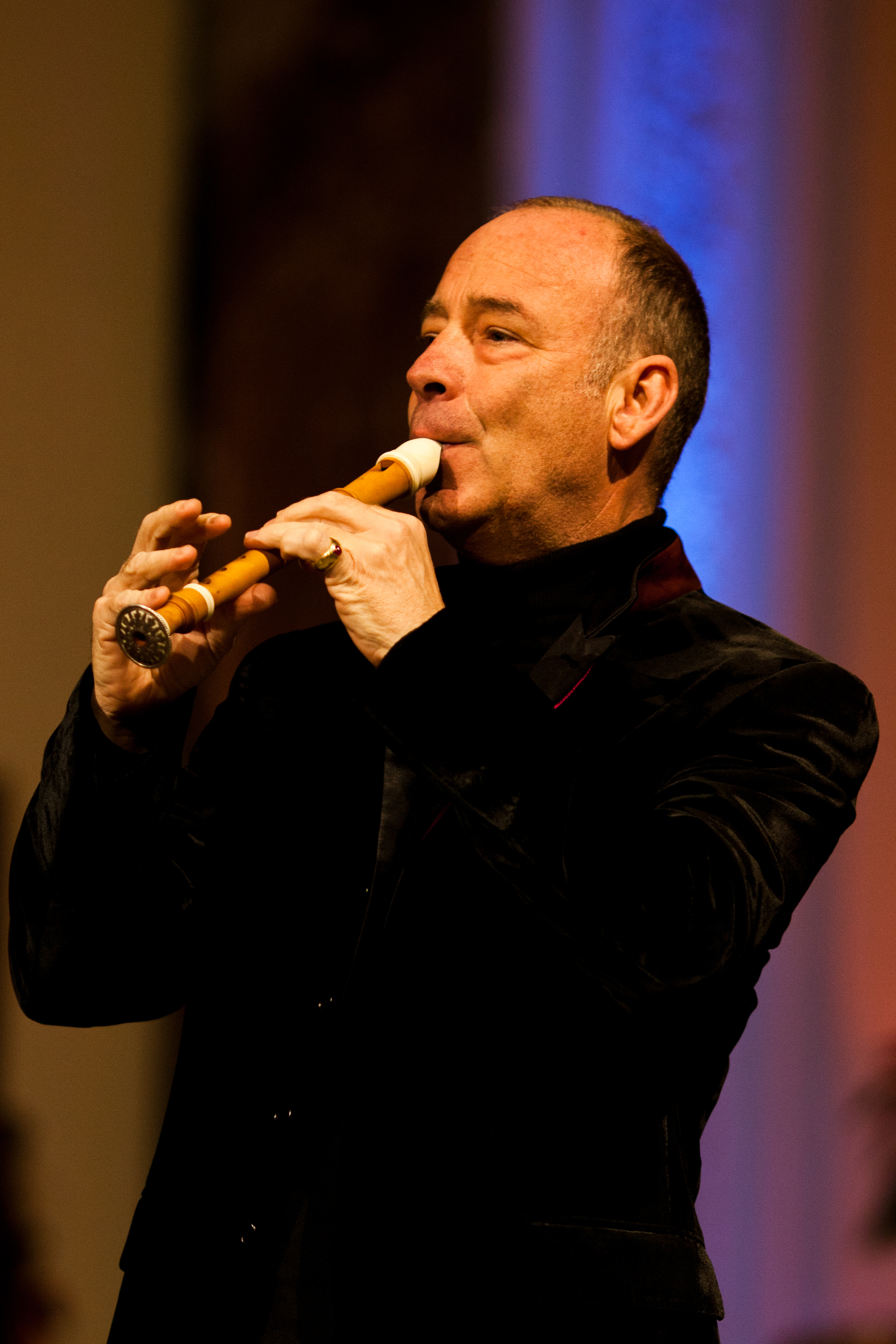 The German recorder player and composer Hans-Jürgen Hufeisen. Photographer: Stefan Neubig, Copyright